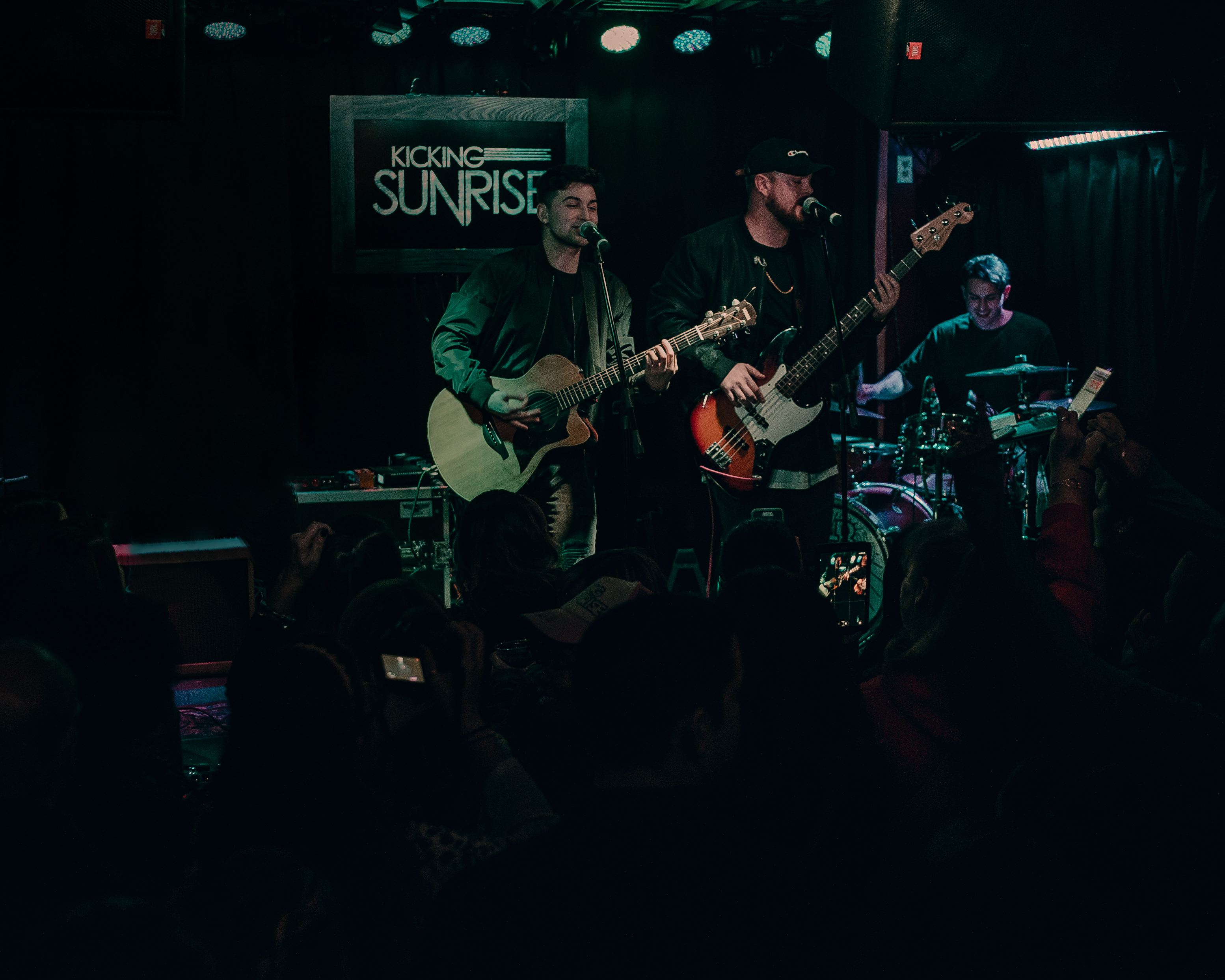 Kicking Sunrise performing at Bourbon & Branch in Philadelphia, PA.